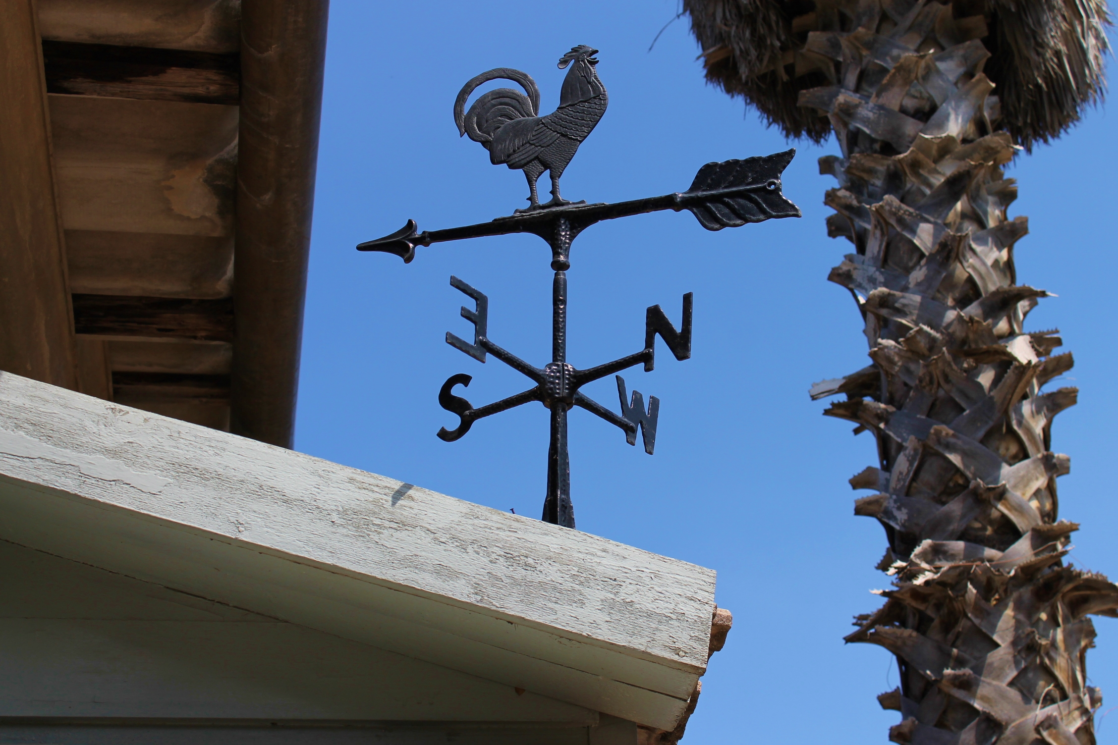 One of thousands of artifacts at the Museum of Pioneer Settlement in Kibbutz Yifat in the Jezreel Valley